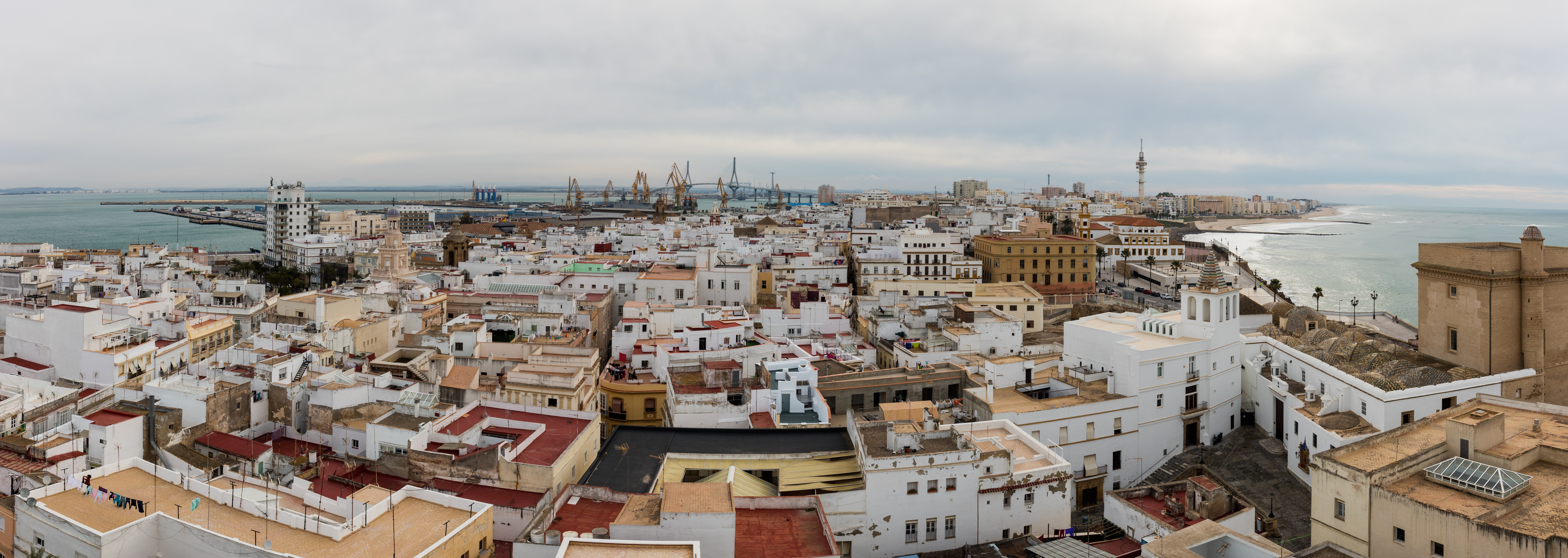 View of Cádiz, Spain